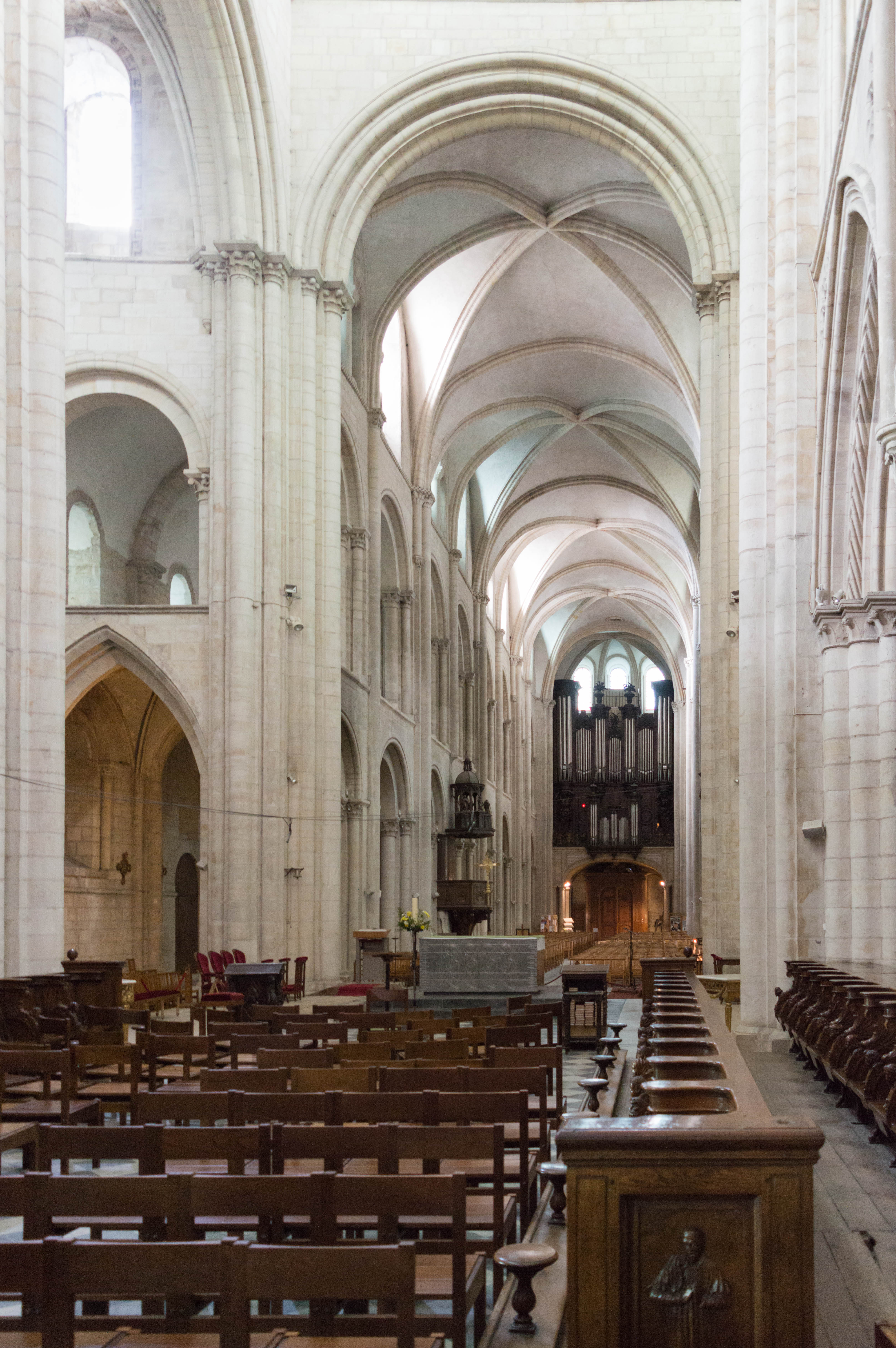 The interior of the church of Saint-Étienne, Abbaye aux Hommes, Caen.